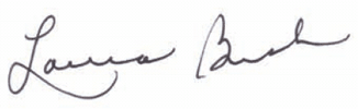 The signature of First Lady Laura Bush.